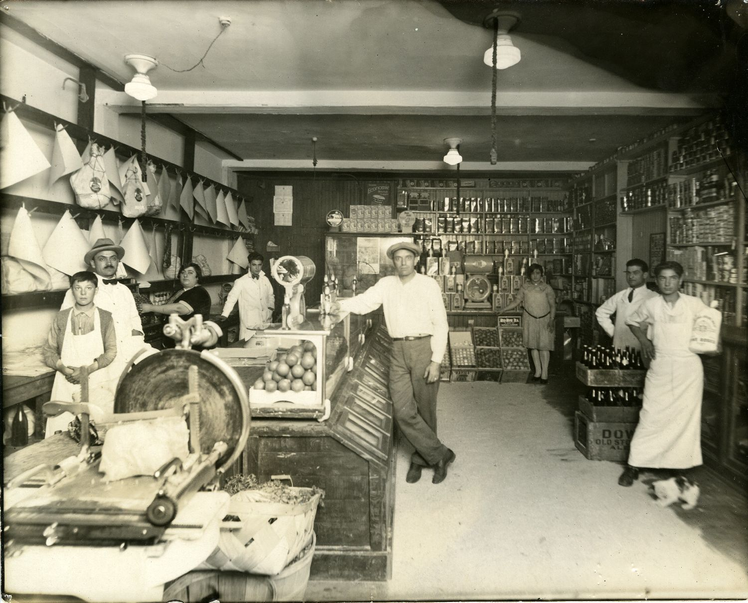 Interior of a grocery store owned by an Italian family (Lembo) on Dante Street in Little Italy, Montreal, c. 1910